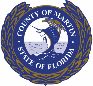 Seal of Martin County, Florida.